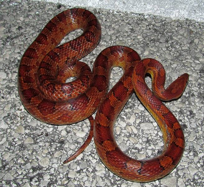 Corn Snake large pregnant female